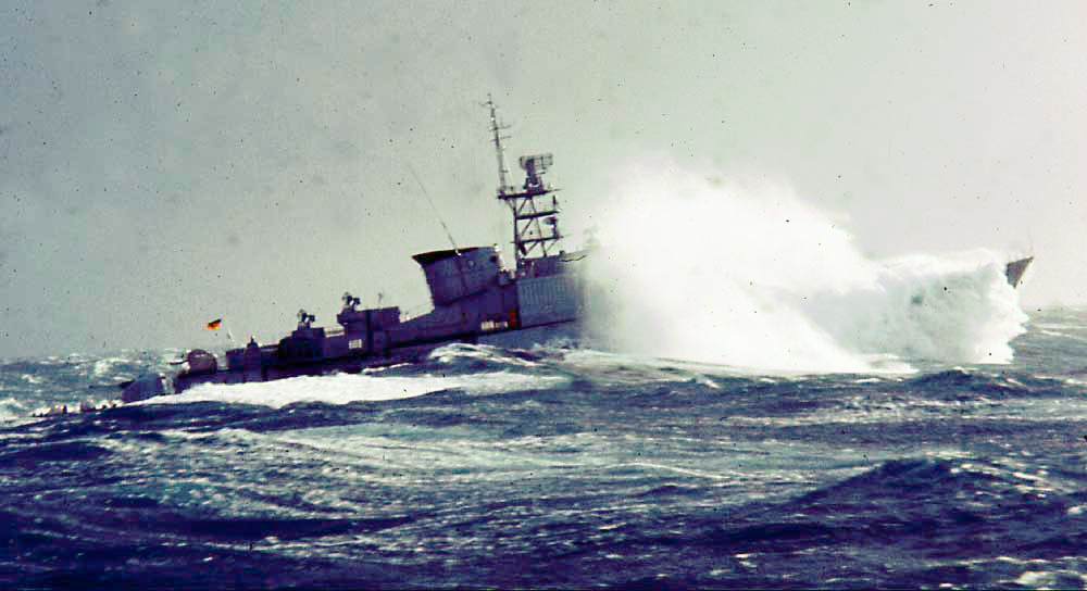 The West German frigate Lübeck (F224) during NATO exercises in the Bay of Biscay, February 1975.